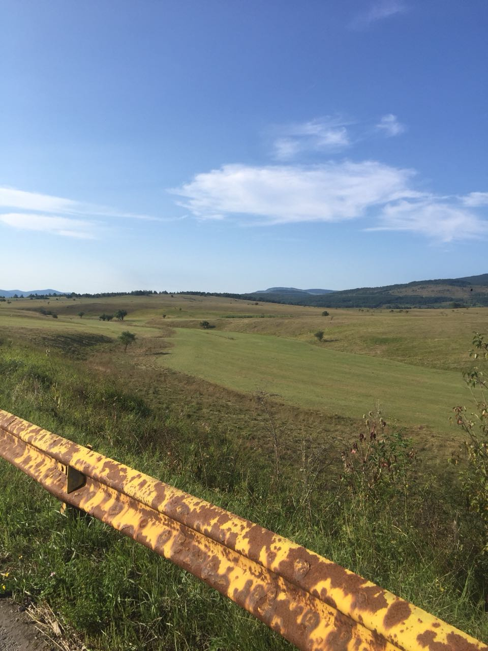 Petrovac field 1